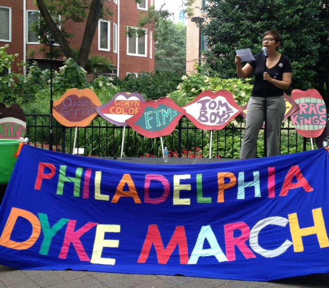 Gloria Casarez delivering her "Dykes First" speech in Kahn Park Philly Dyke March 2012.